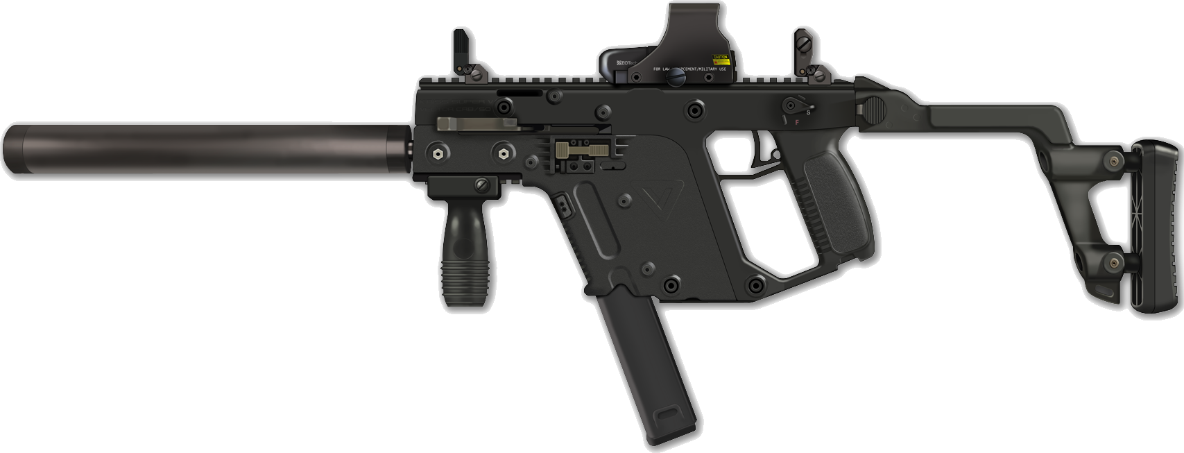 TDI / KRISS USA Vector CRB Civilian Carbine